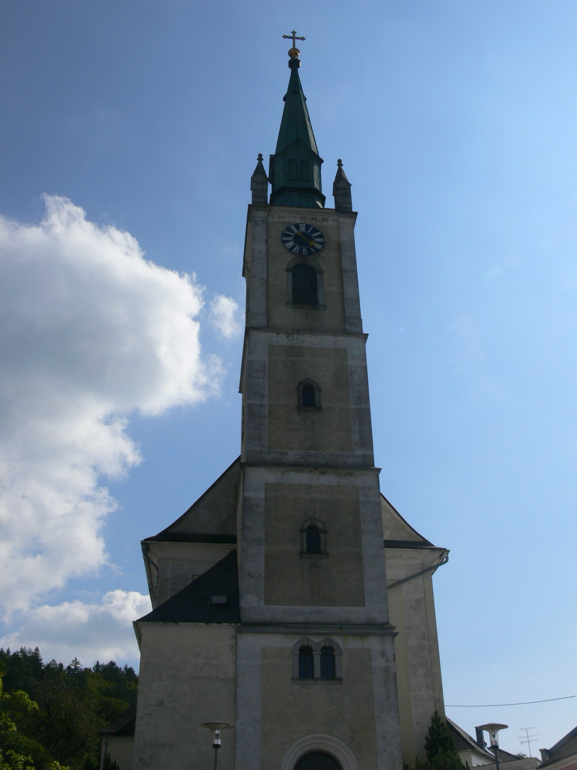 Saint Mary Magdalene parish church in Oepping ( Upper Austria ). Facade with tower ( 1883 )